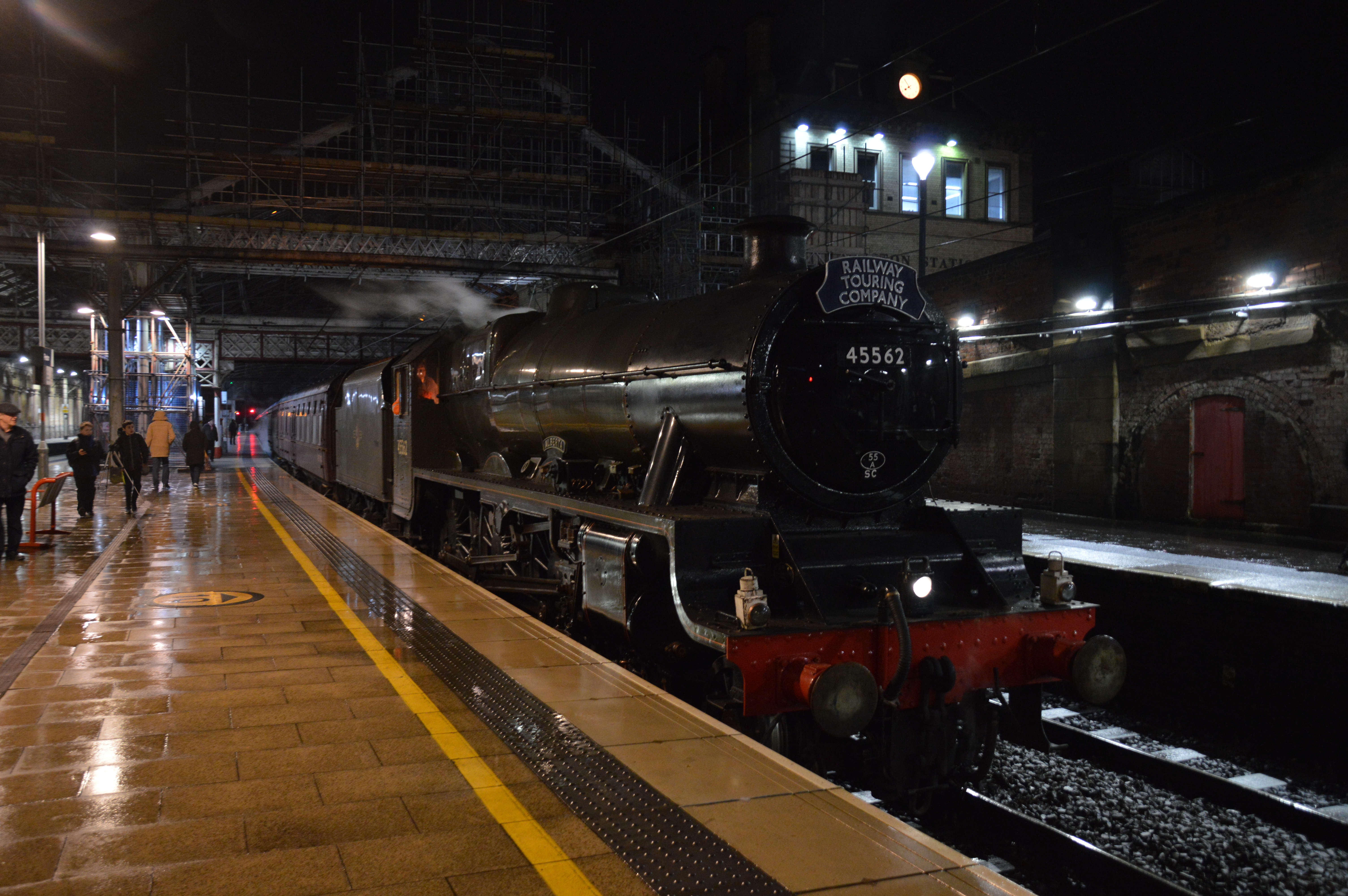 45562 Alberta stood at Preston's platform 5 waiting for the signal to depart with the last leg of Feb 29th's Cotton Mill Express. 45562 Alberta is in fact 45699 Galatea in disguise.